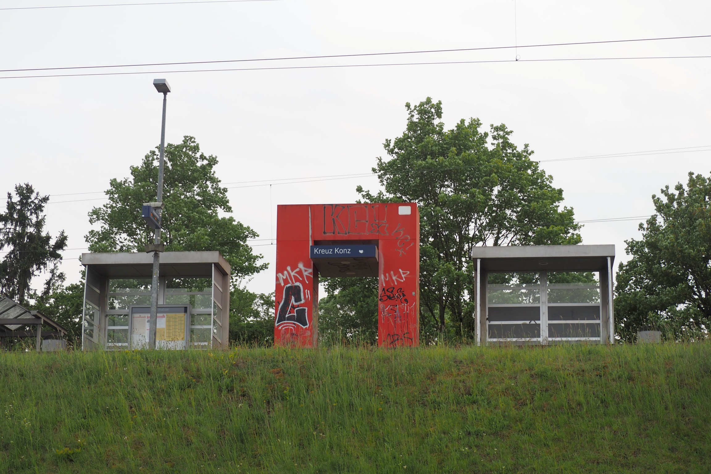 Platform of railway station Kreuz Konz, Konz, Rhineland-Palatinate, Germany